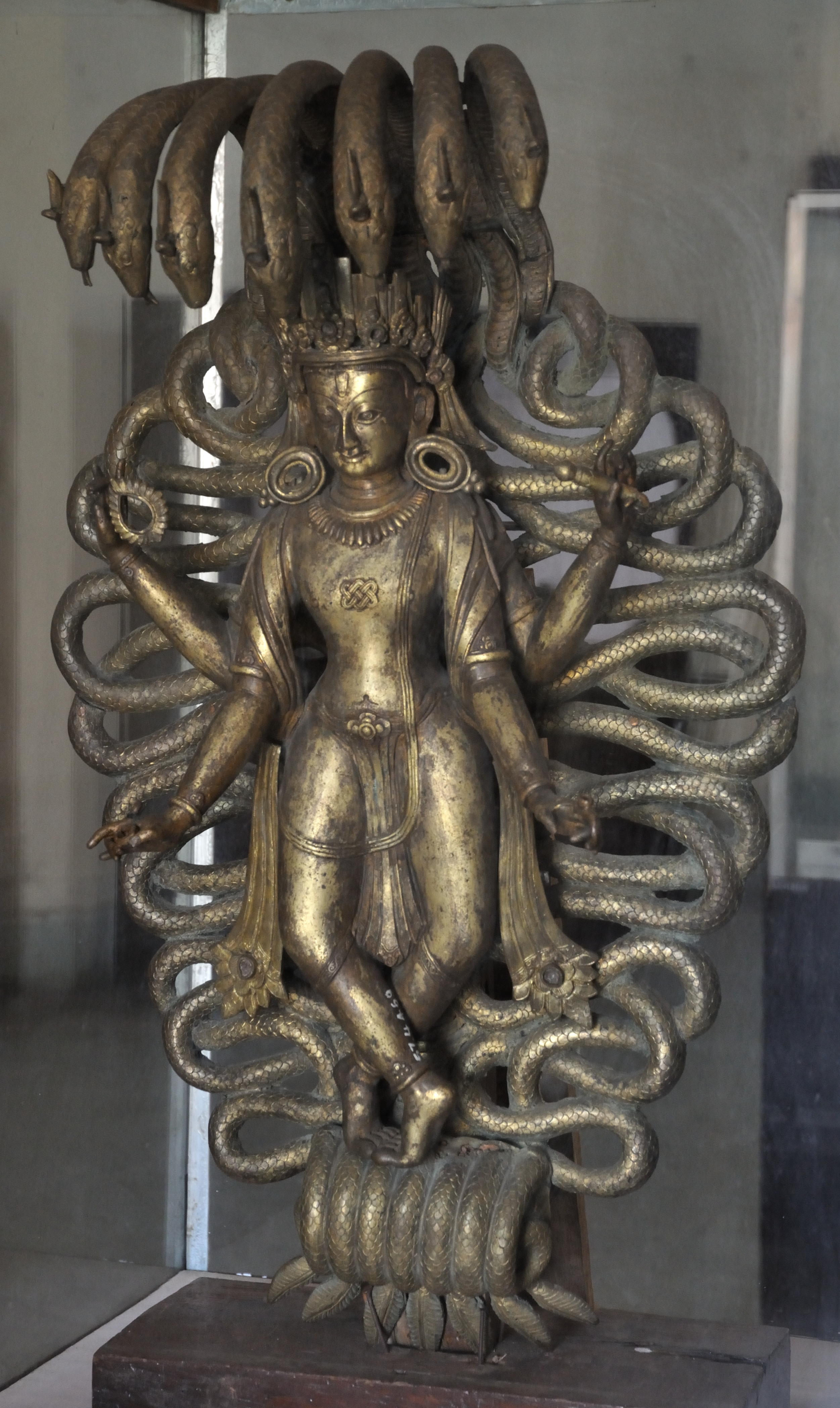 This artefact resides at the Government Museum, (hi: Rashtriya Sangrahalaya) formerly The Curzon Museum of Archaeology, Museum Road or Murari Lal Rajpal road, Dampier Nagar, Mathura, Uttar Pradesh, India. This museum is administrating by the State Government of Uttar Pradesh of India.